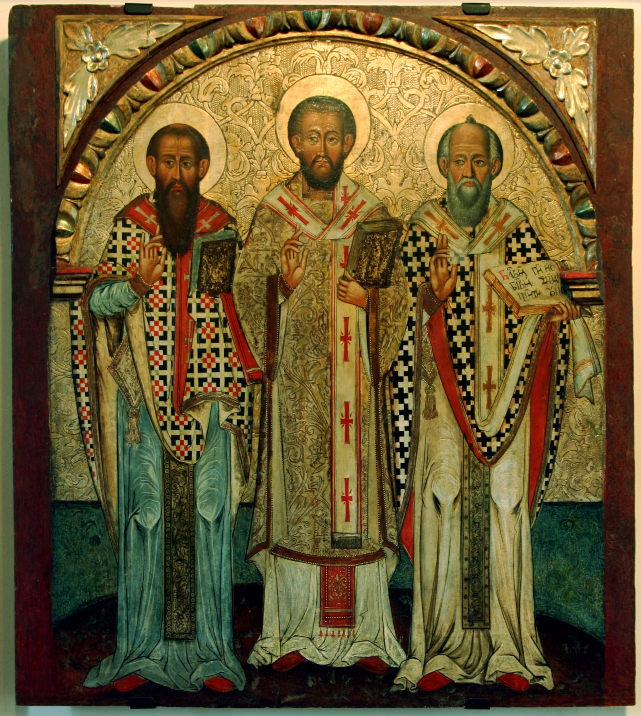 The Fathers of the Church: Saint Basil of Caesarea, Saint John Chrysostom, Saint Gregorius of Nazianzus - an icon of 17th cent. from Lipie, Historic Museum in Sanok, Poland